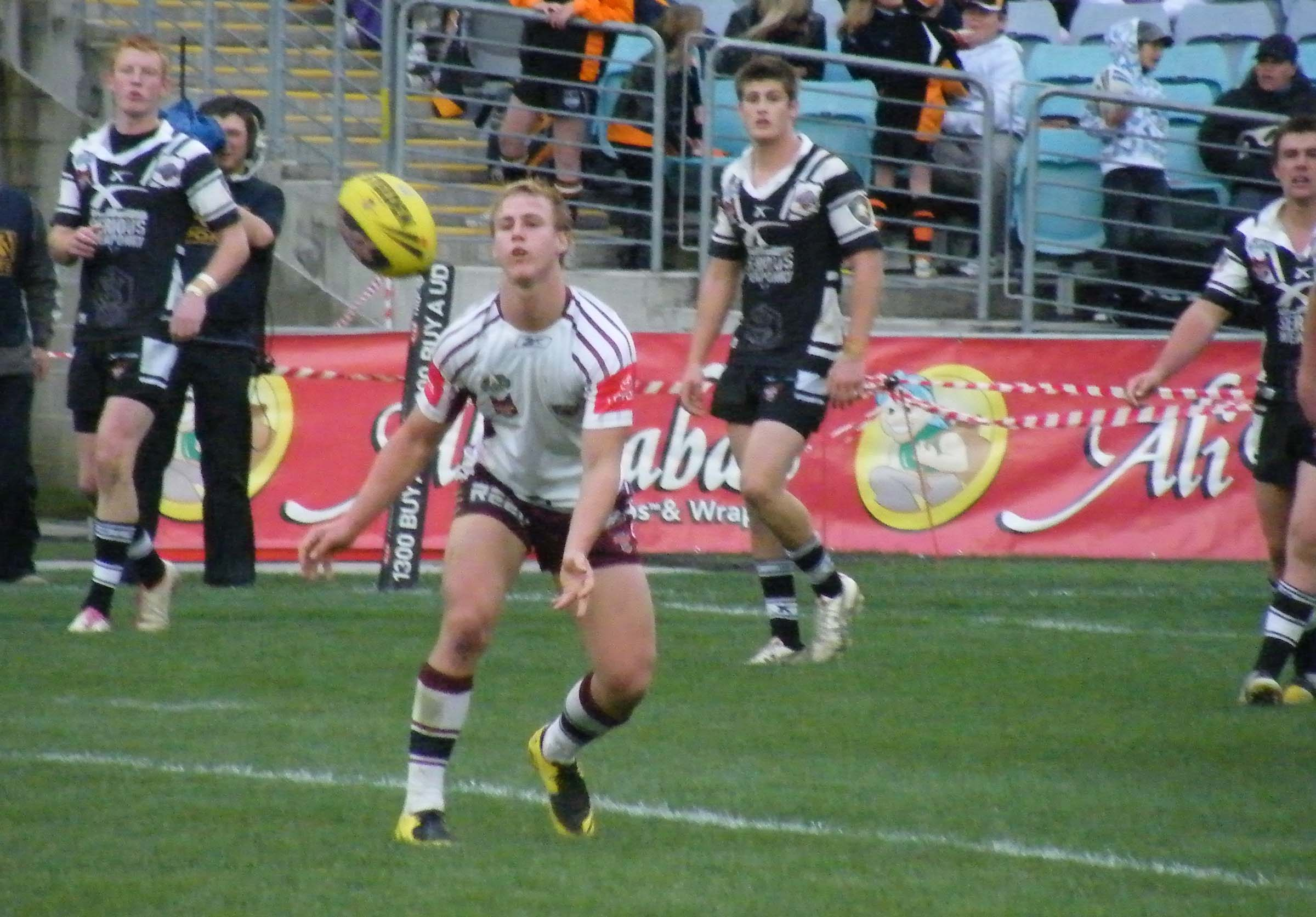 Daly Cherry-Evans in the 2008 Toyota Cup Final